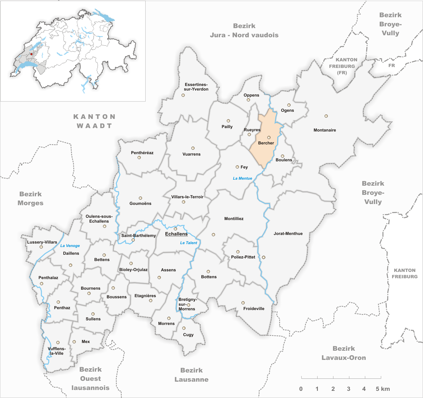 Municipality Bercher